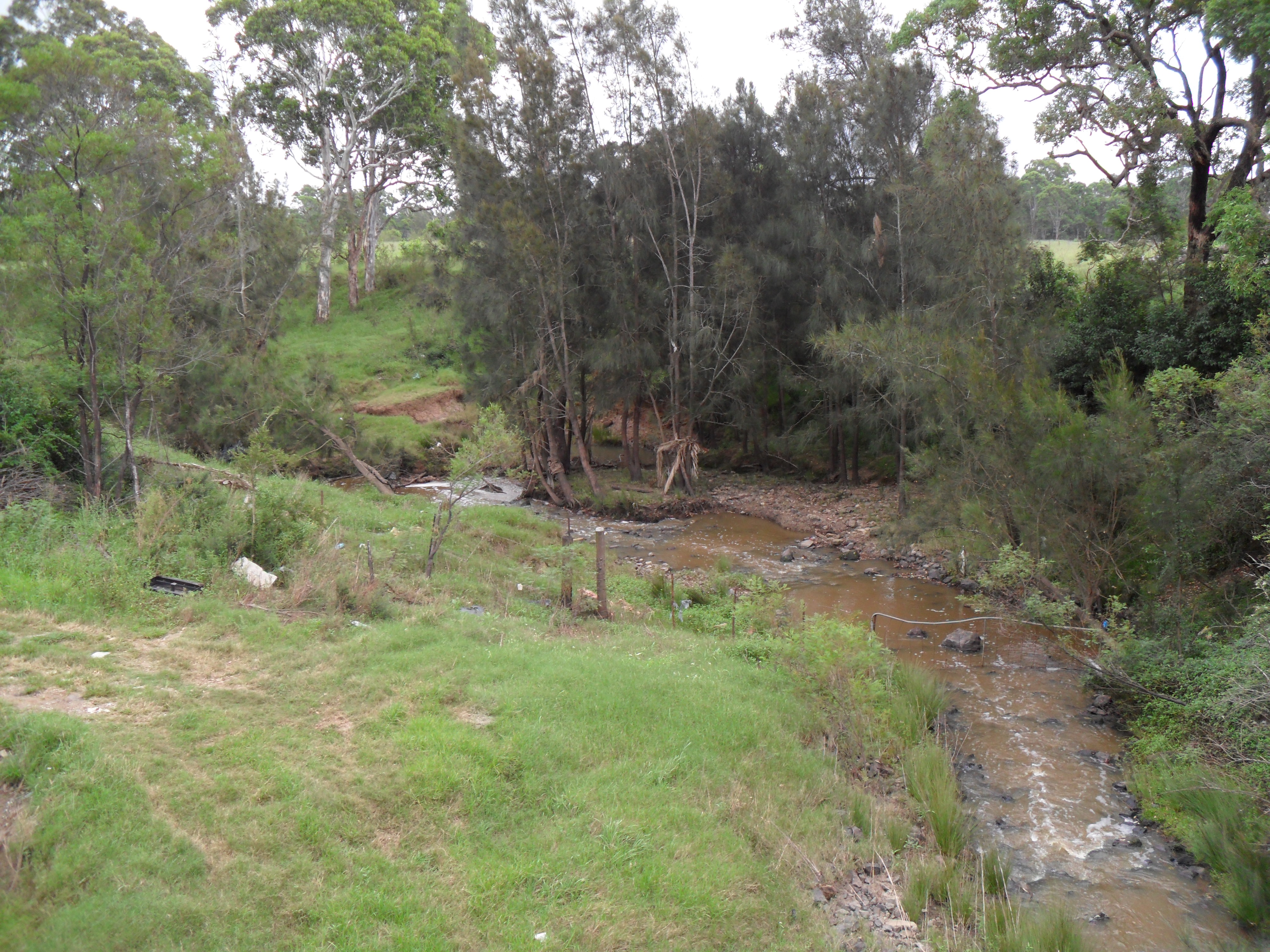 South Creek view from Luddenham Road, Orchard Hills NSW